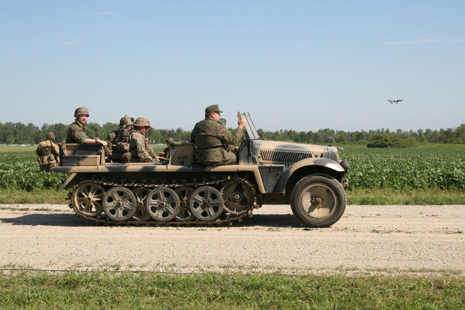 German SdKfz 10, Thunder Over Michigan 2006.